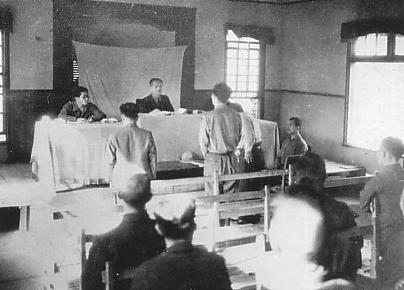 Ryukyuan Court in 1946